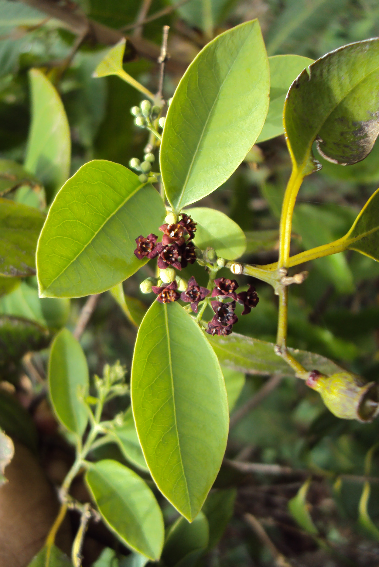 Santalum album leaves and flowers